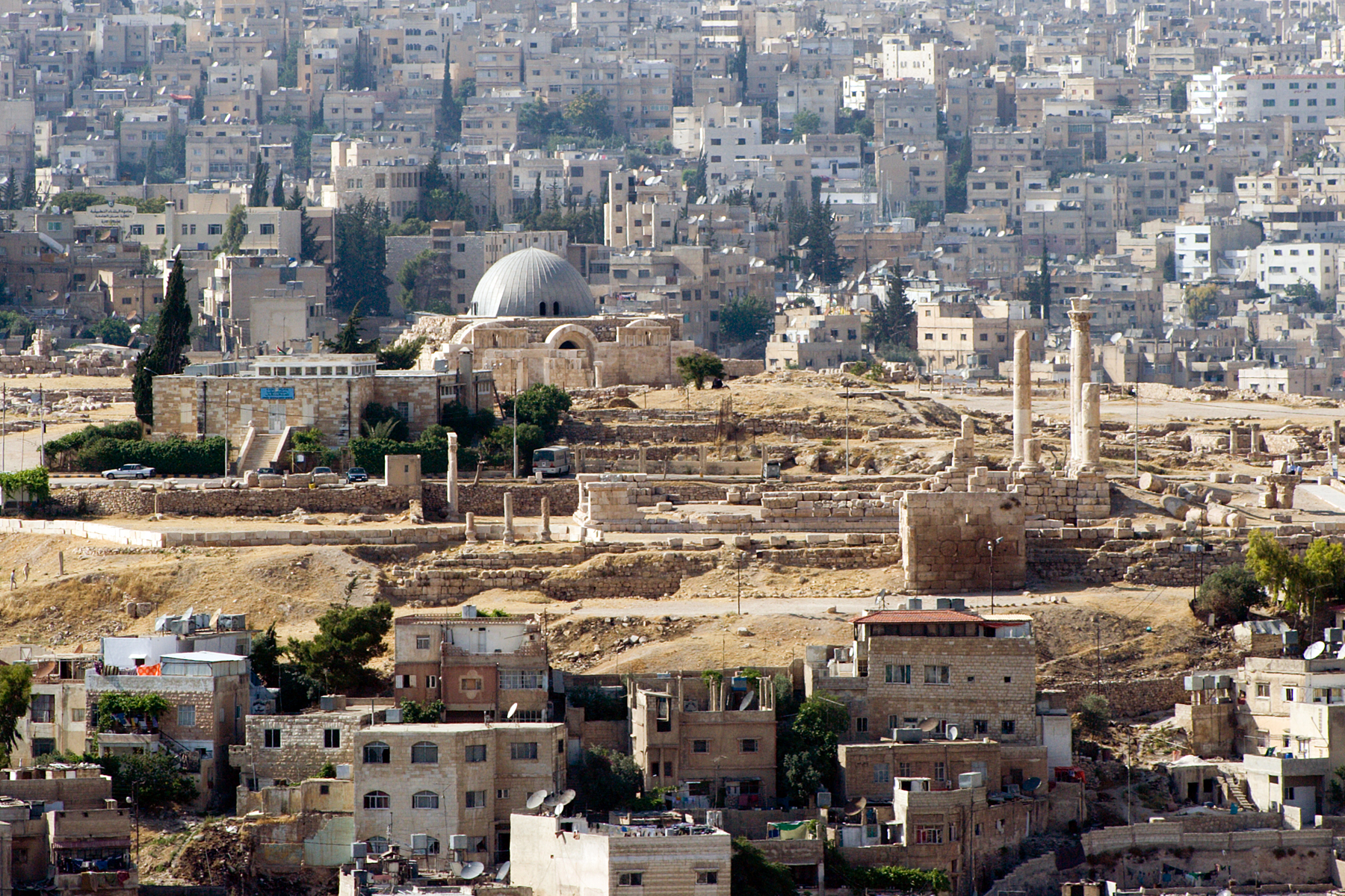 Amman's Citadel atop Jabal al-Qal'a, the historical center of the city.